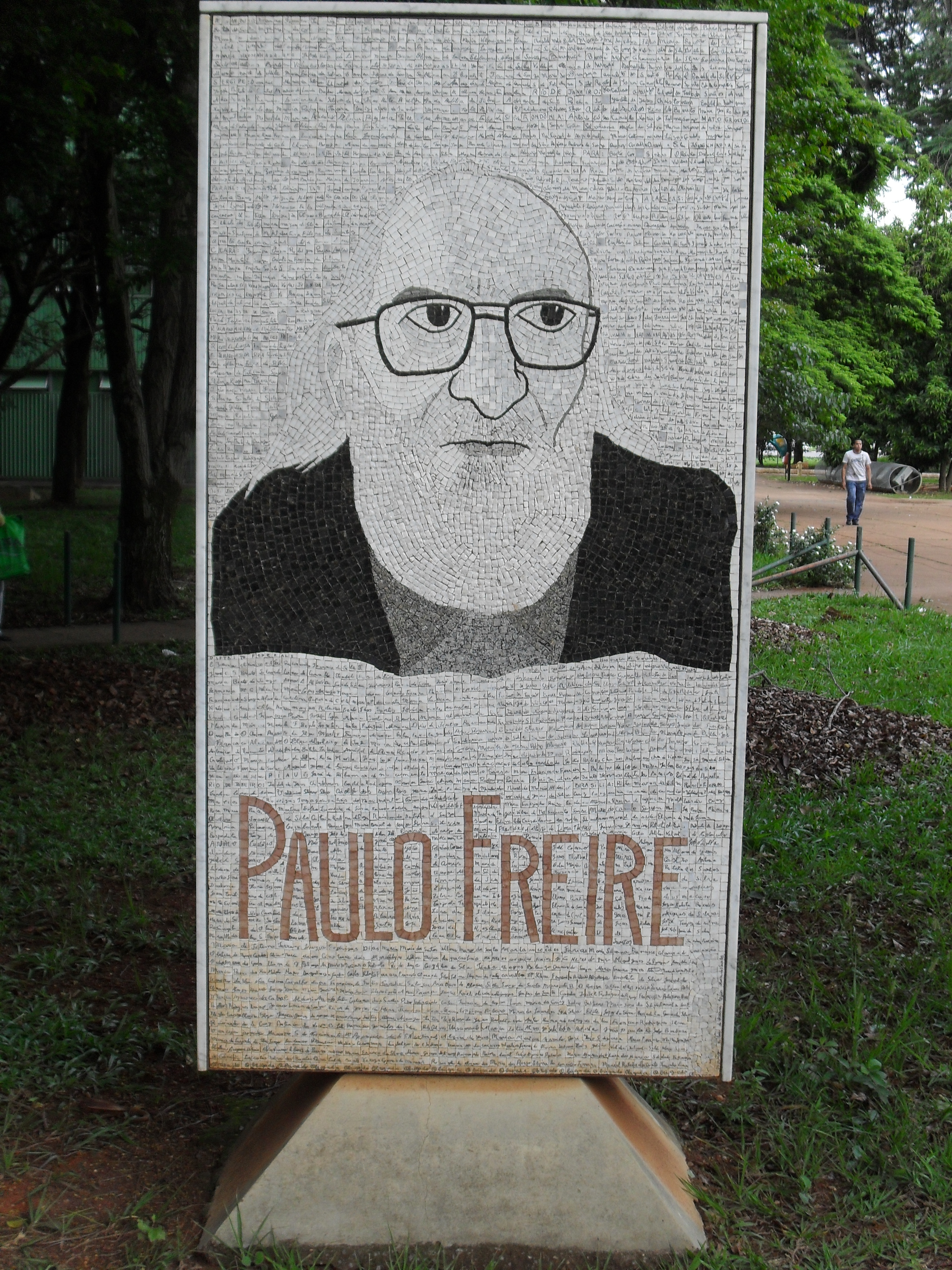 A Monument about Paulo Freire in front of Ministy of Education